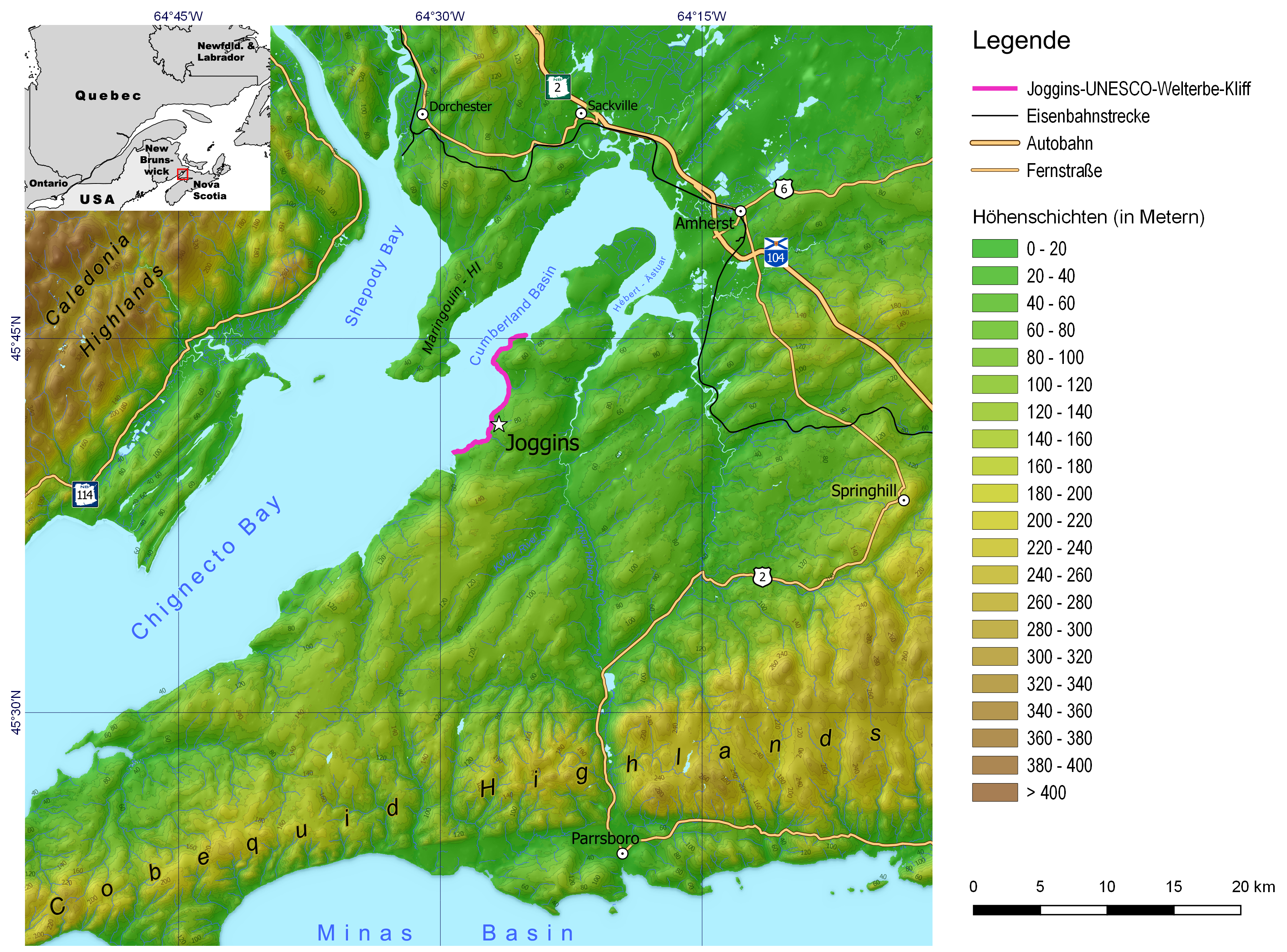 Physical geography of the Joggins area, western Cumberland County, Nova Scotia, and adjoining areas in New Brunswick with indication of the UNESCO World Heritage cliff section